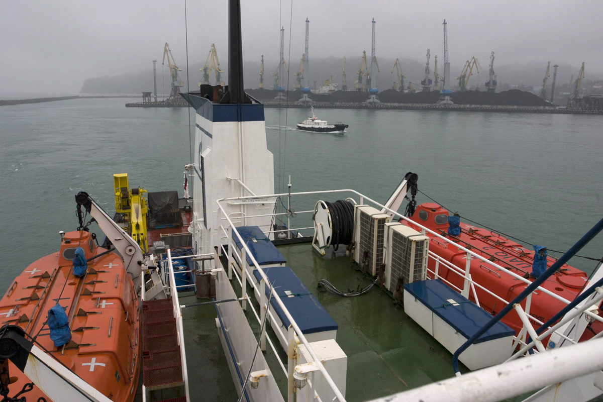 Ship "Akademik Golitsyn" in Tuapse